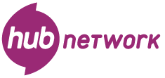 Hub Network logo as of January 13, 2014